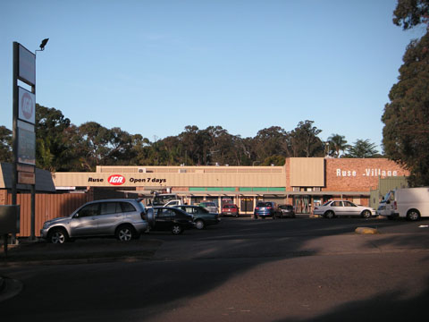 Shopping centre in Ruse, NSW